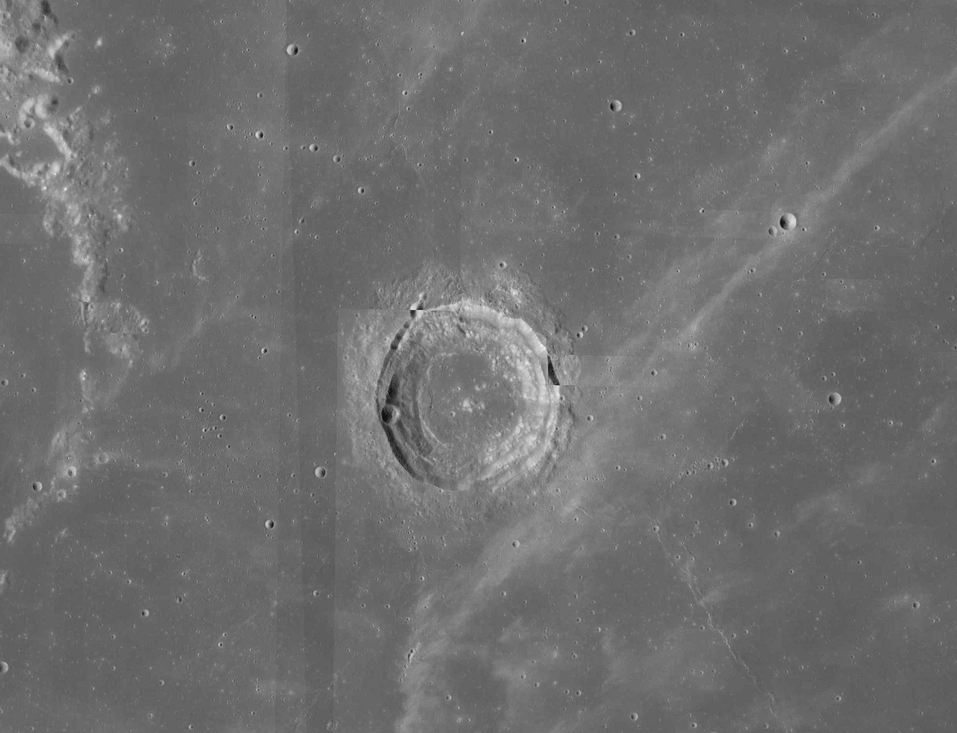 Crater Seleucus (detail of LRO - WAC global moon mosaic)